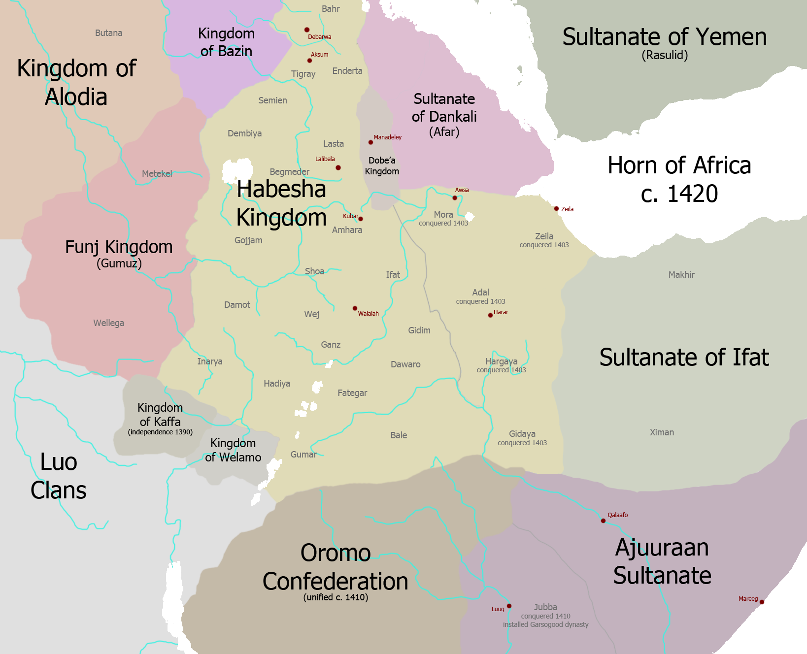 Map of Ethiopia following the conquests of Dawit I